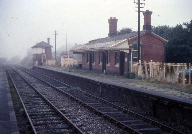 Railway station at Templeton in Pembrokeshire Wales. The station buildings and signal box before being demolished